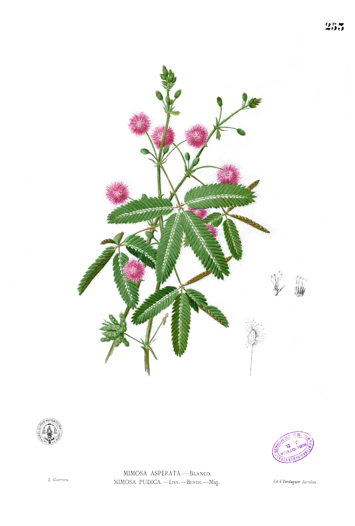 Plate from book